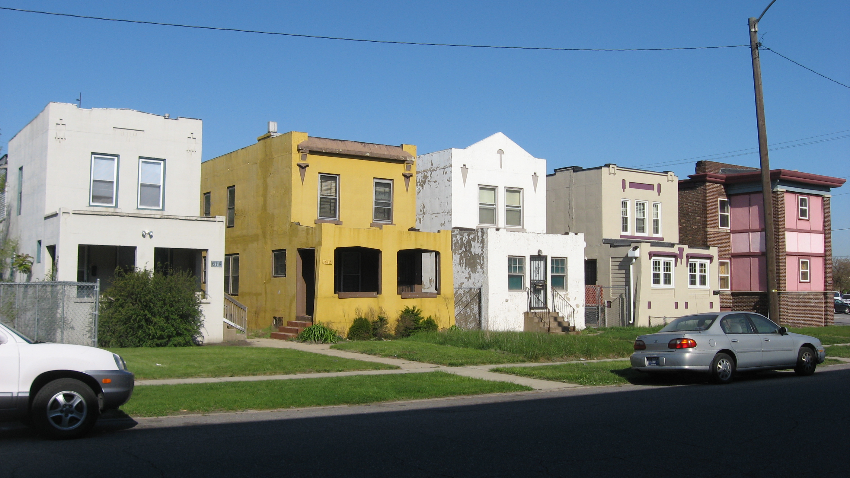 Street view of the houses at 614-604 (left-right) Polk Street and the apartment building at 600 Polk in Gary, Indiana, United States, across Polk from the Cathedral of the Holy Angels. The houses (but not the apartments) compose the Polk Street Concrete Cottage Historic District, a historic district that is listed on the National Register of Historic Places.